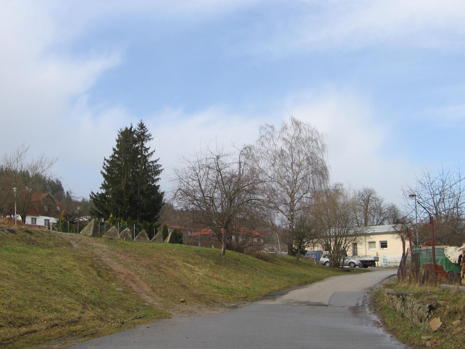 Former Barracks of the 62nd Motor Rifle Regiment in Prachatice.